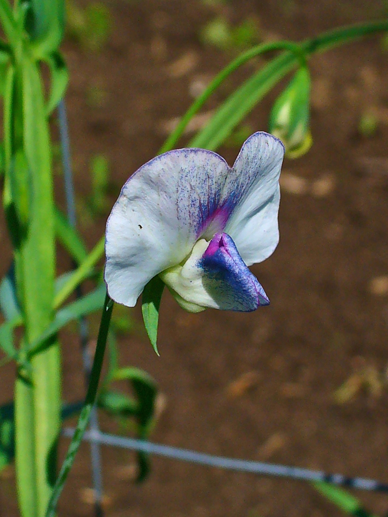 Lathyrus sativus, Fabaceae, Grass Pea, Blue Sweet Pea, Chickling Vetch, Indian Pea, Indian Vetch, White Vetch, flower. The ripe seeds are used in homeopathy as remedy: Lathyrus sativus (Lath.)